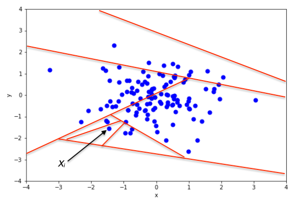 An example of random partitioning of a 2D Gaussian dataset with Extended Isolation Forest.